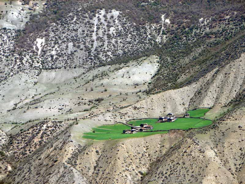 Photo taken from a local road in the northern part of Iran. (About 30x zoomed)